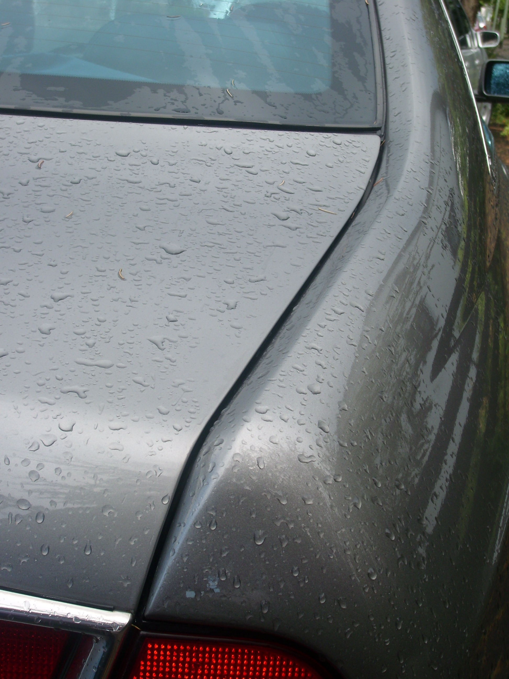 Tailfin of the Lancia Kappa Coupé (1997-2000)